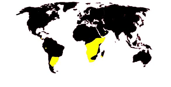 Distribution of Hydnoraceae